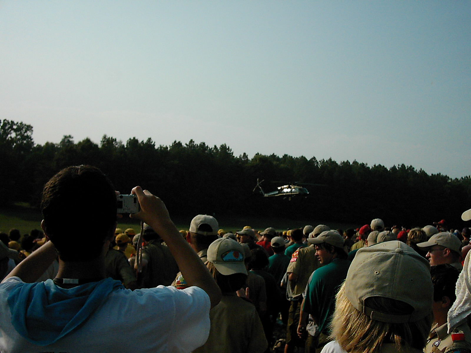 Taken during the Arena Show at the 2005 National Scout Jamboree.